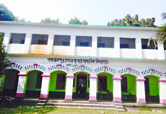 Photo Of Gangarampur P.K. Secondary School